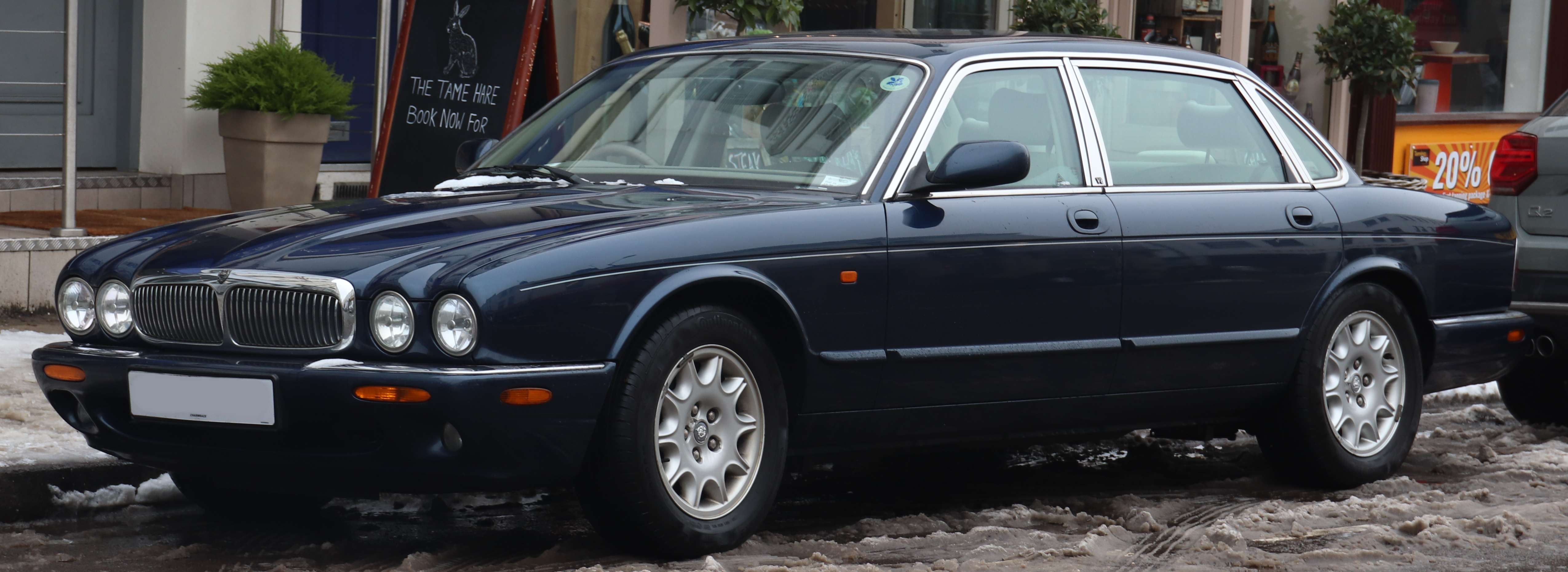 1998 Jaguar Sovereign V8 Automatic 4.0 Taken in Leamington Spa